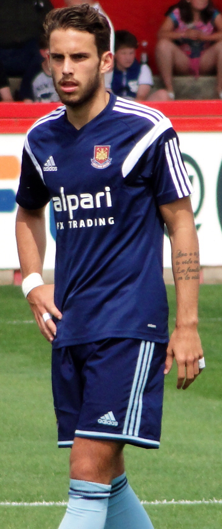 West Ham United's Diego Poyet warming up at Broadhall Way, Stevenage before their friendly game against Stevenage, July 2014.